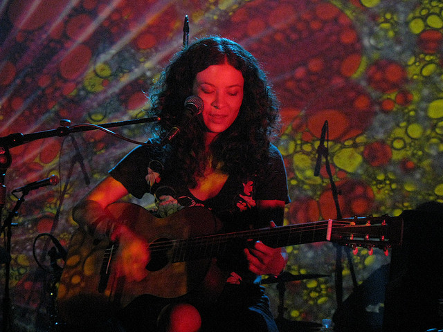 Mia Doi Todd opens for the Beachwood Sparks at The Echoplex on August 22, 2008